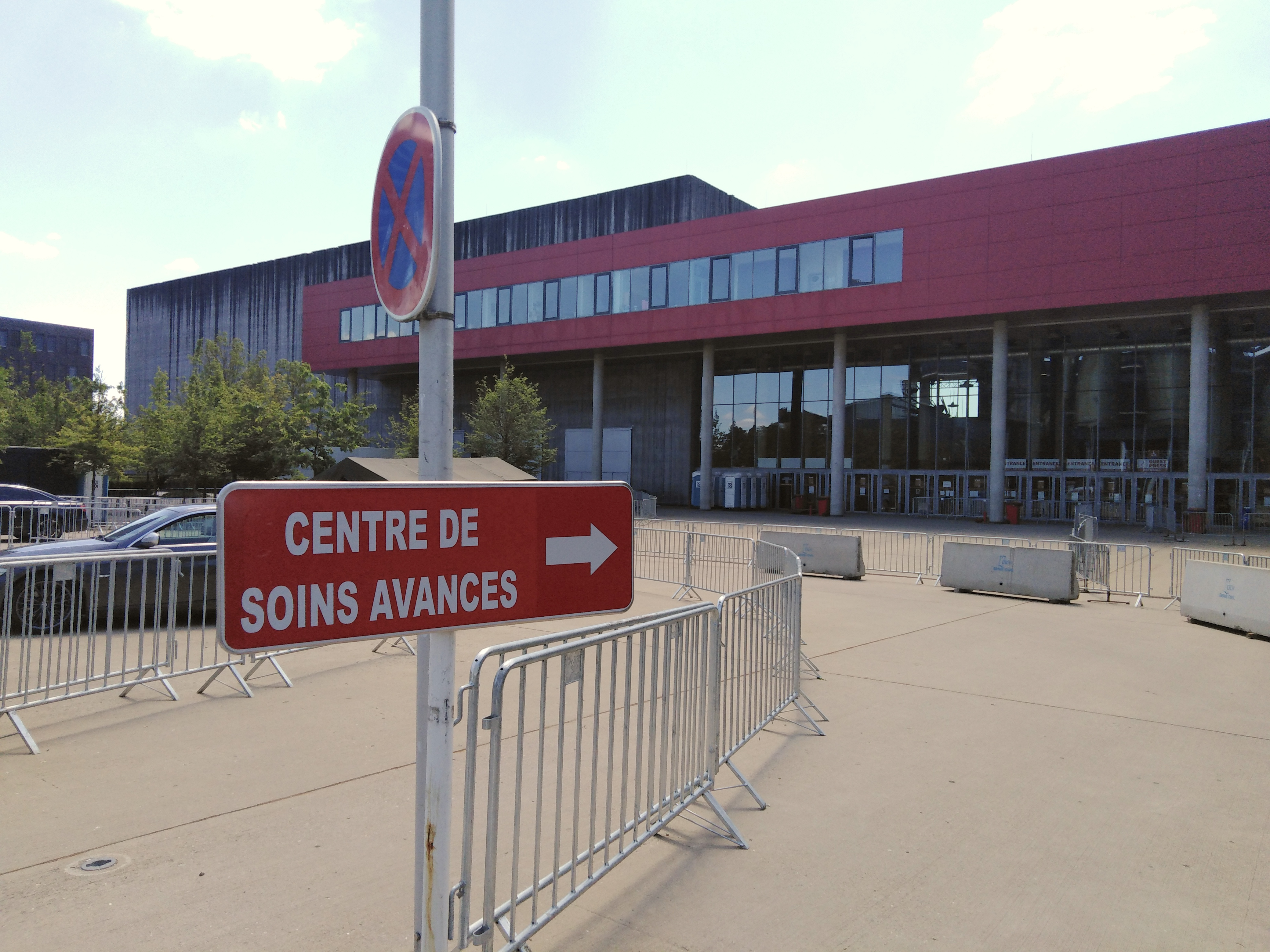 Concert venue Rockhal in Belval, Luxembourg, converted into an Advanced Care Centre during the Covid-19 crisis